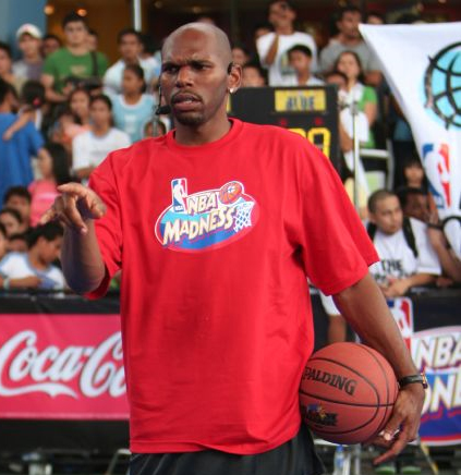 NBA All-star guard Jerry Stackhouse went to the Philippines to host the NBA Madness at the SM Mall of Asia together with the Dallas Mavericks Dancers and the dunking mascot Mavs Man.